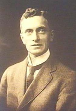 Herbert Basedow (1881-1933), australian anthropologist, geologist, explorer and medical practitioner